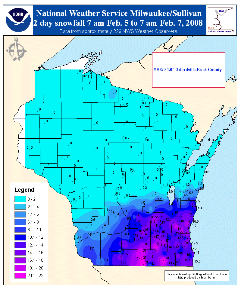 Map of snowfall amounts across Wisconsin during a winter storm event on February 5-6, 2008 which was associated with the system that spawned a tornado outbreak over the Mid-Mississippi, Ohio and Tennessee Valleys at the same time.